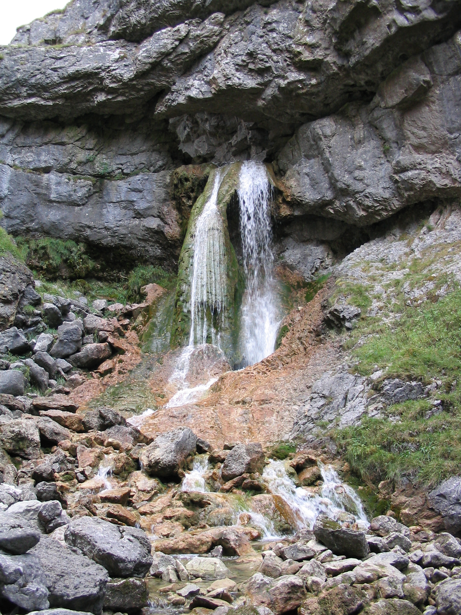 "Constructive waterfall" at Gordale Scar, a dramatic limstone ravine close to Malham, North Yorkshire, England. There is kind of a cushion underneath the falling water. Continuously chemically precipitated calcium carbonate from the calcium carbonate saturated karst water encrusts moss. The deposits gradually grow. See also Tufa.